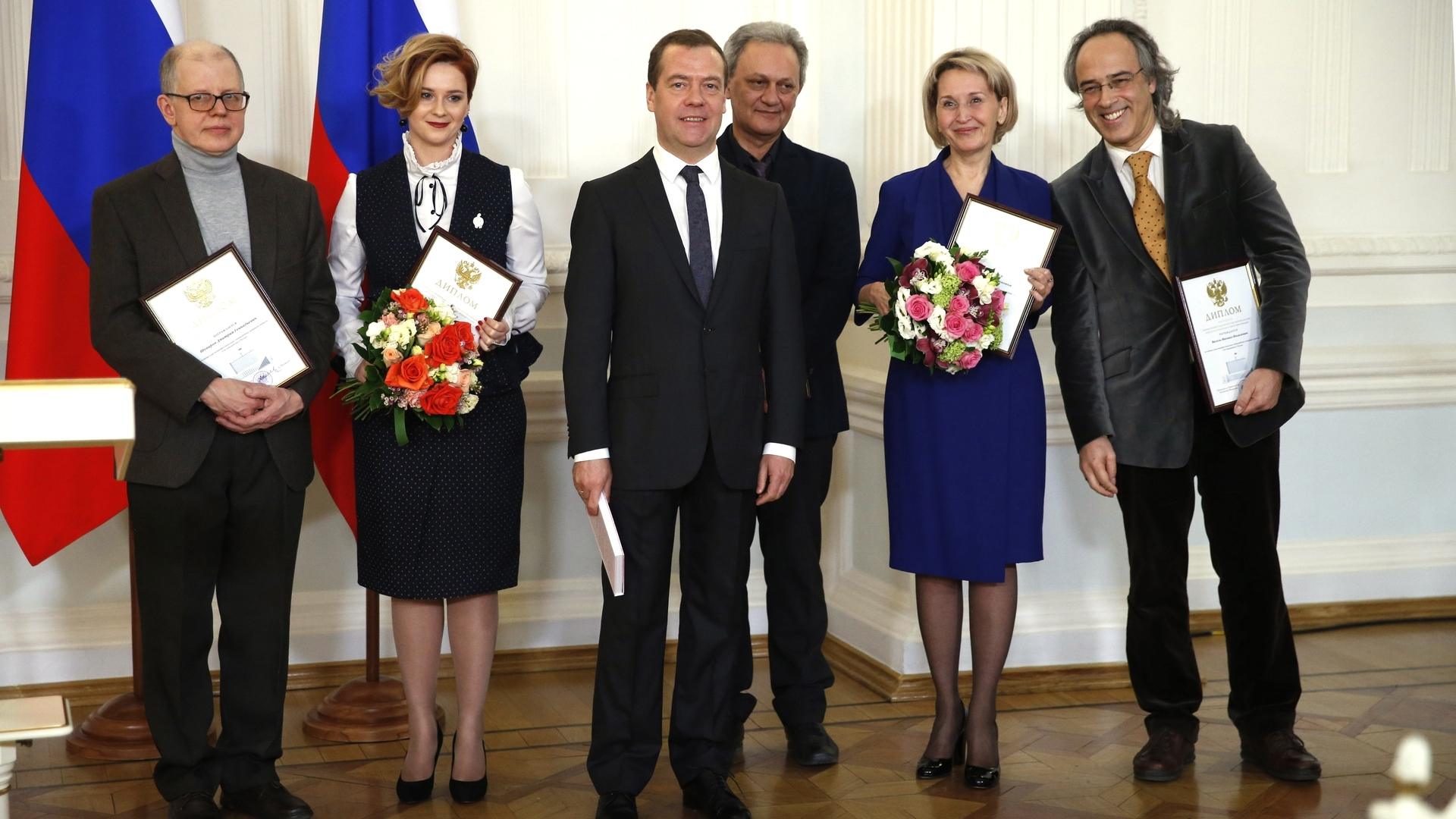 Dmitry Medvedev with journalists of portal "Literature year in Russia" and "Rossiyskaya Gazeta"